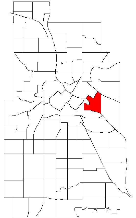 Location of the University neighborhood in Minneapolis